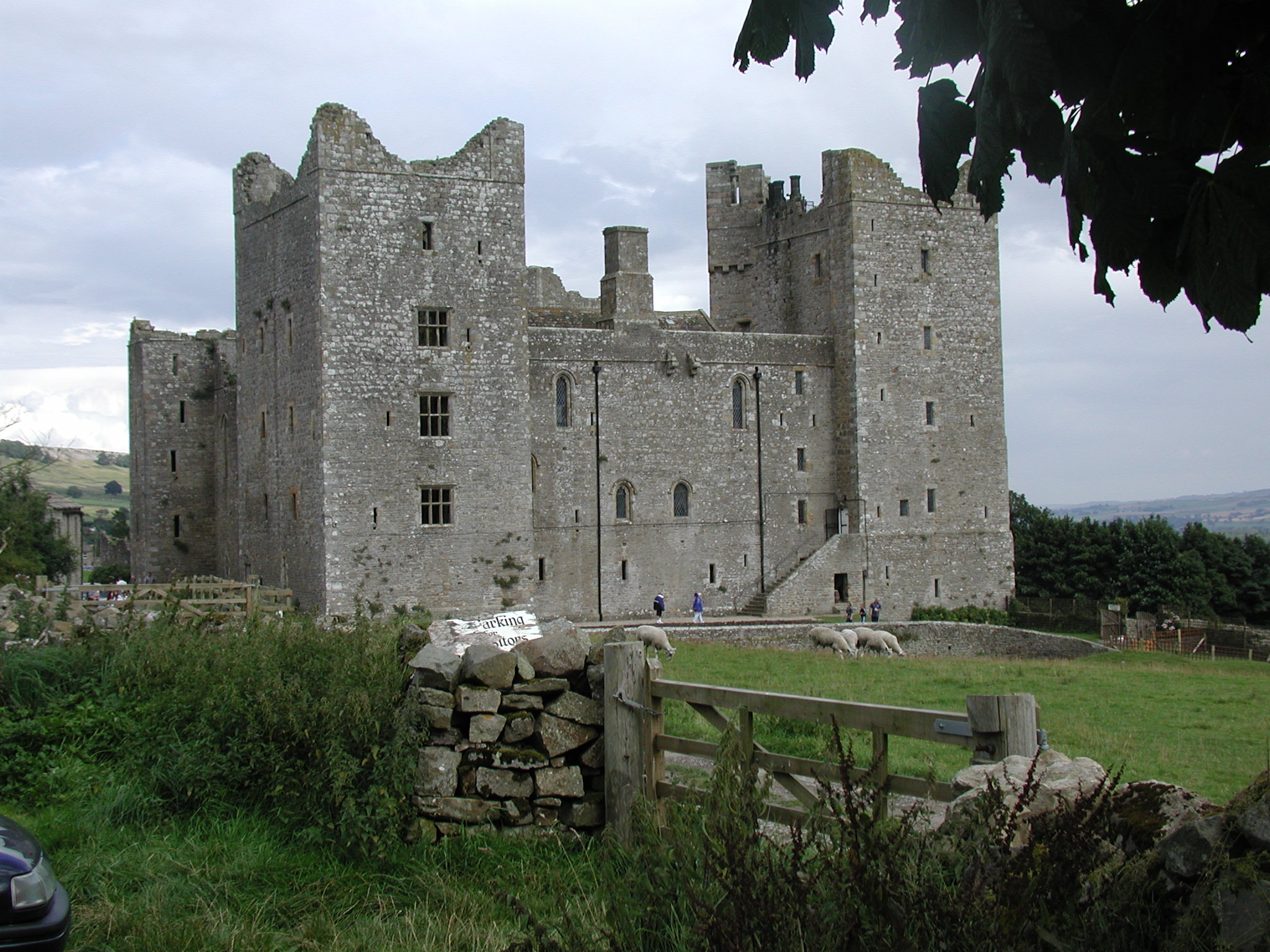 Bolton Castle near Leyburn, North Yorkshire, England